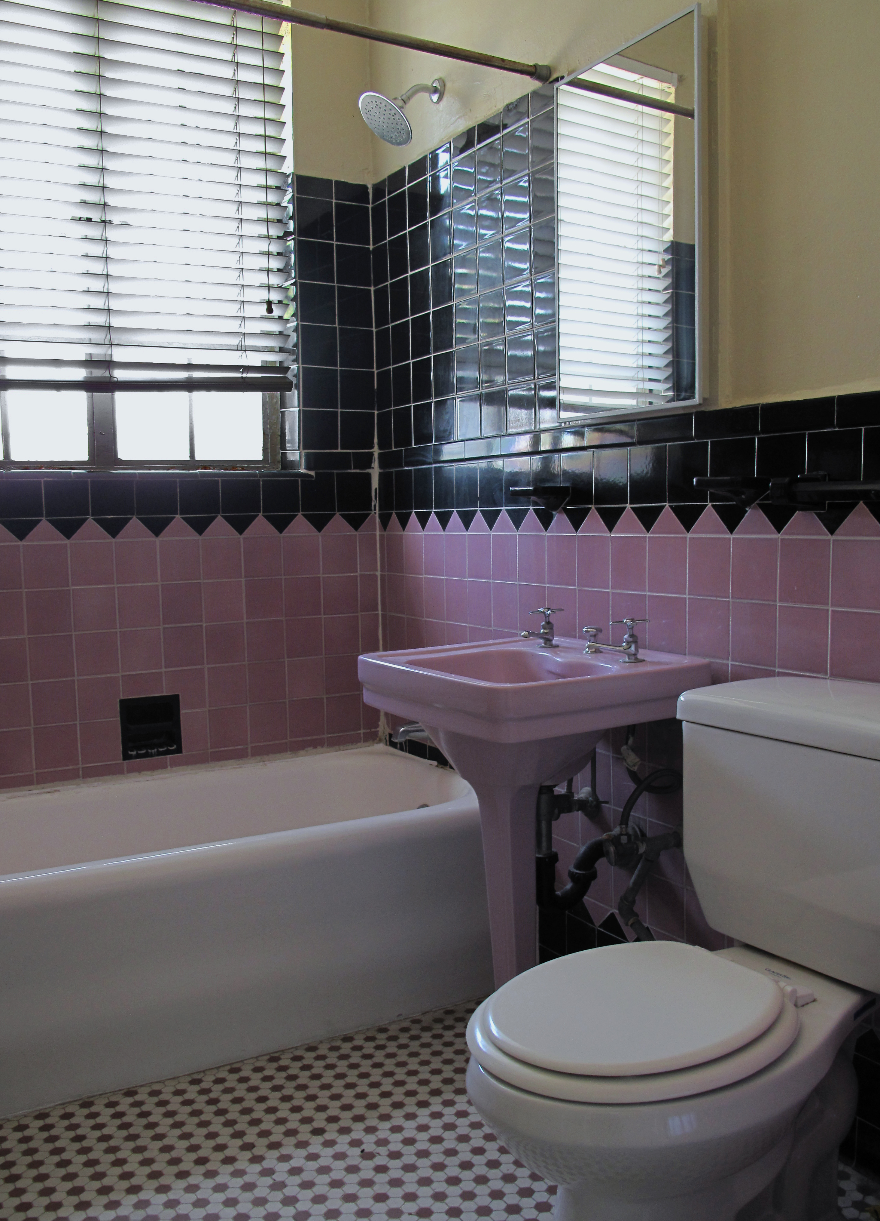 Bathroom in 1920s apartment house with original light thulian pink and black tile, hexagonal floor tiles, and pedestal sink. Location is Los Angeles, California.